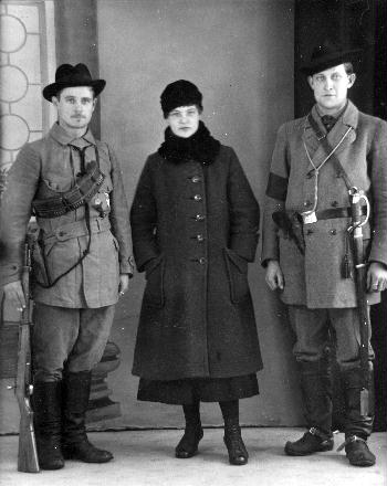 Finnish civil war-red guard leaders